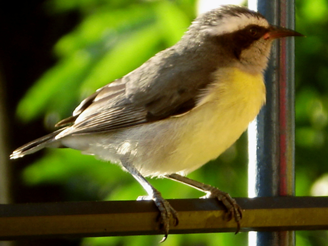 Bananaquit, photographed in the balcony of my apartment.